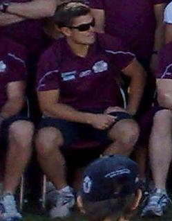 Manly Sea Eagles 2008 Victory Celebration